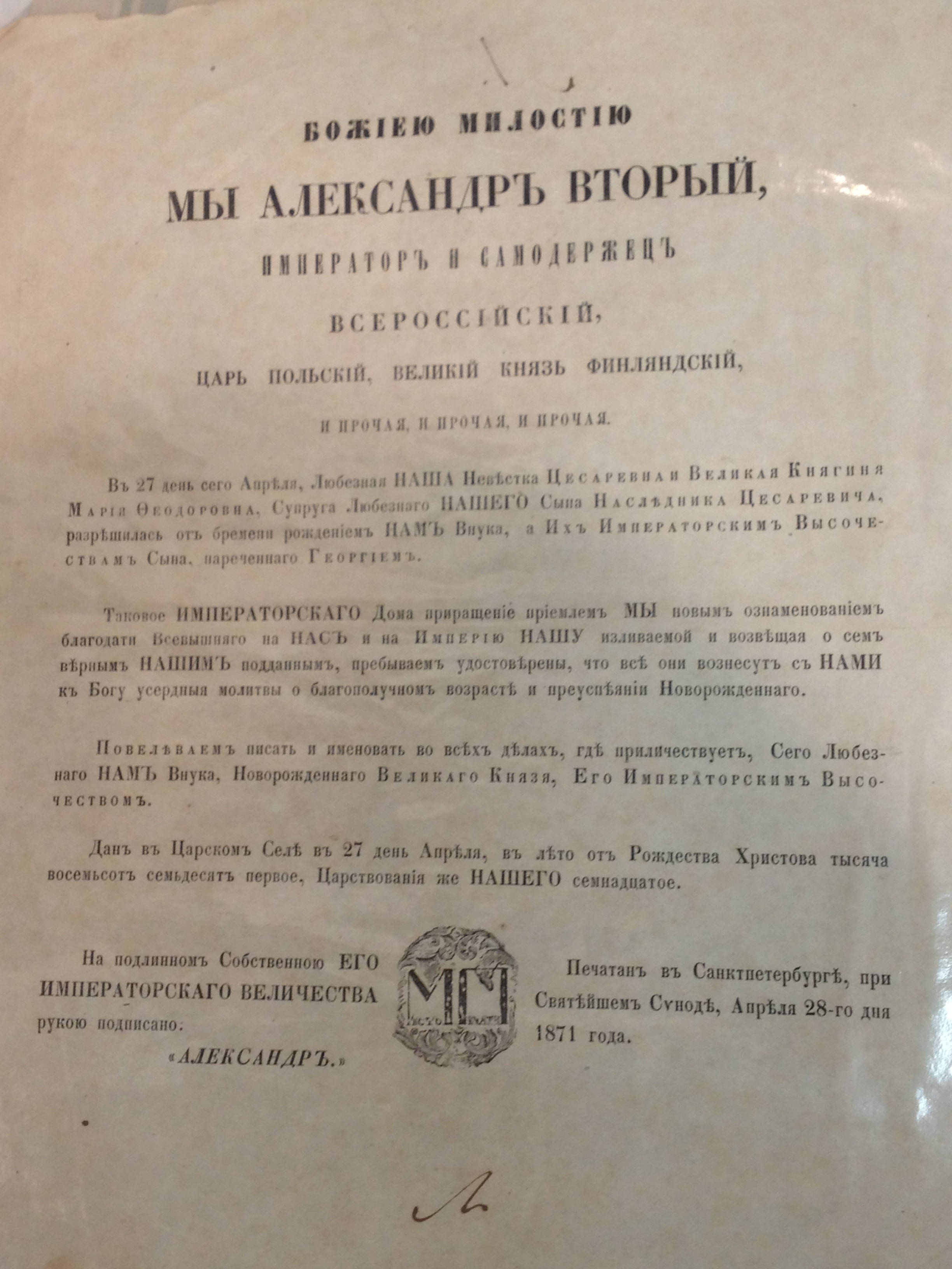 Alexander II Manifesto on the birth of Grand Duke George Alexandrovich of Russia